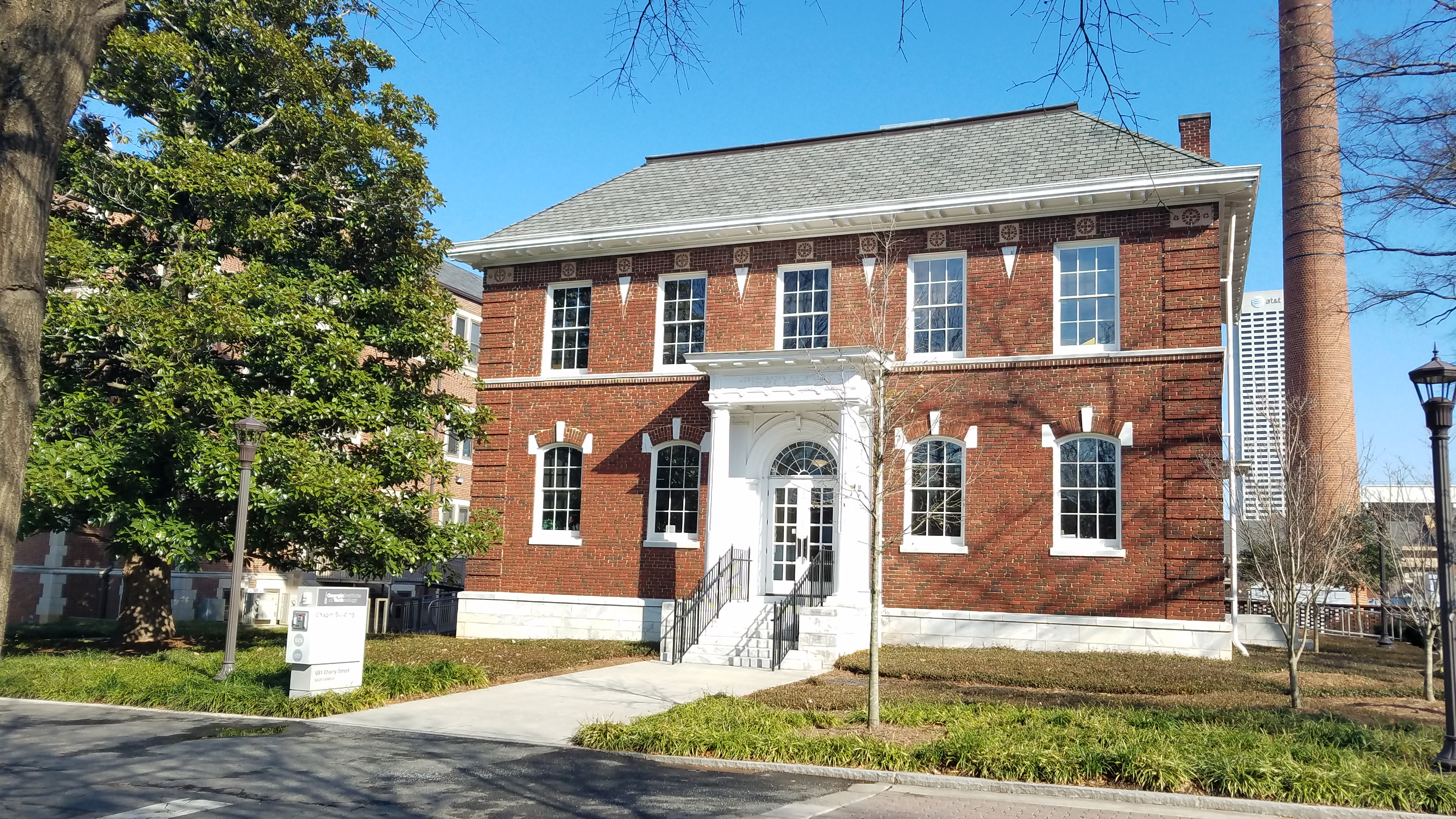 Chapin Building on the campus of the Georgia Institute of Technology, Atlanta, Georgia, United States